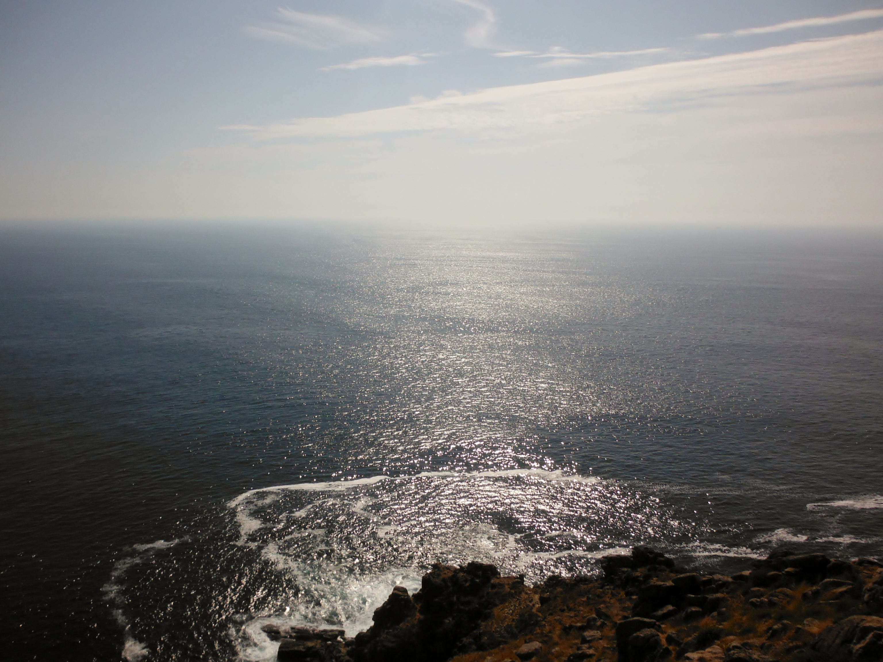 Looking out from Finisterre